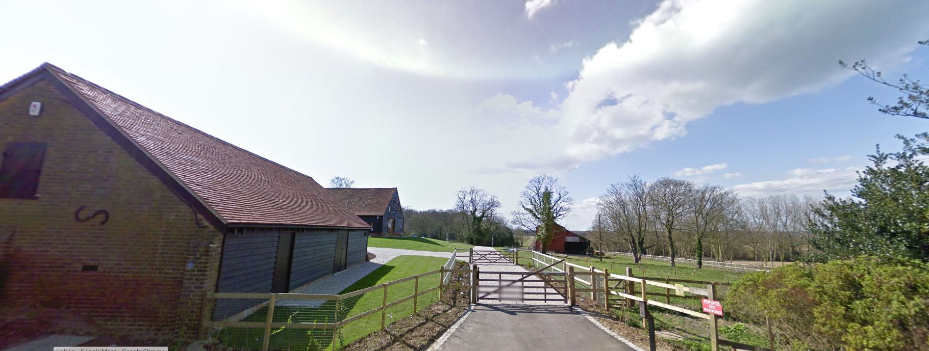 The barns at Shenfield Hall Farm after the barn conversions. The public footpath to the A12 can be seen.